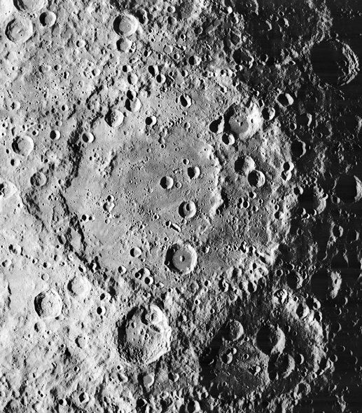 Image of lunar crater Korolev with surroundings, taken by Lunar Orbiter 1. The preview image 1038_med was reduced in size to one third normal, cropped to focus on the view on Korolev and rotated 180° to that south is downward. The large crater to the lower right is Galois. At bottom center-right is Doppler.